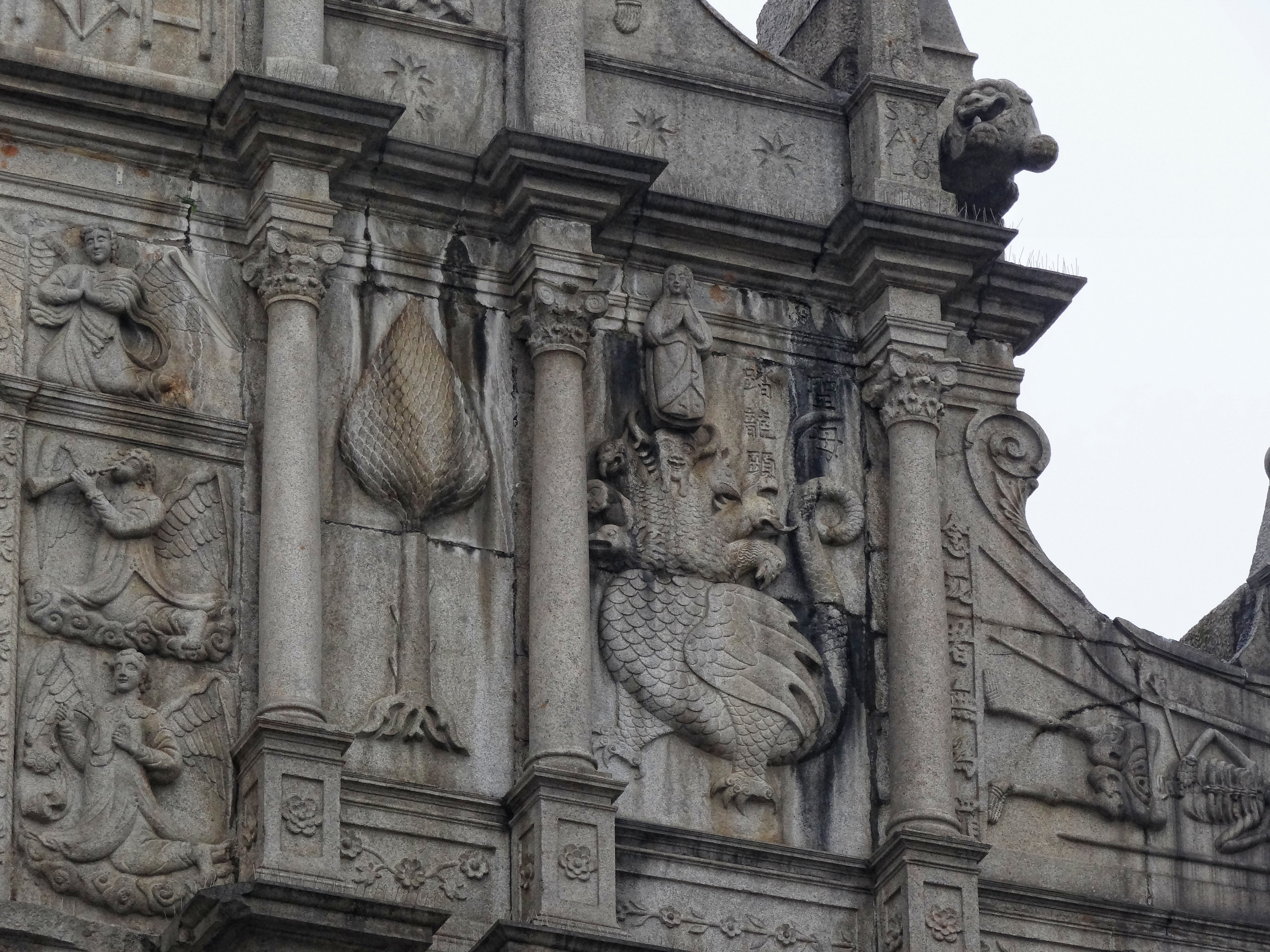 Detail from the Saint Paul church ruins in Macau. The carvings include Jesuit images with Oriental themes, such as The Blessed Virgin Mary stepping on a seven-headed hydra, described in Chinese characters as 'Holy Mother tramples the heads of the dragon'.